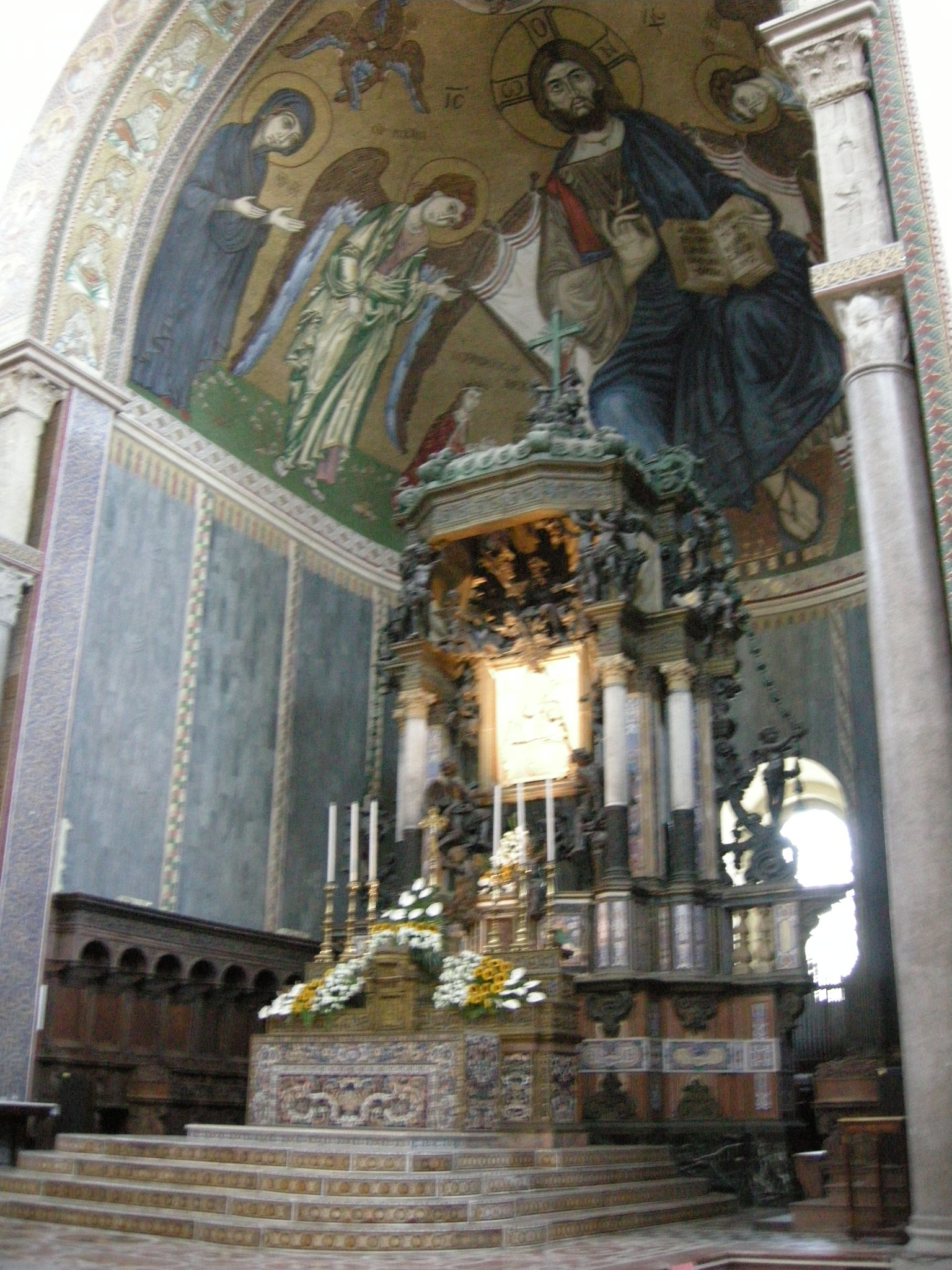 Duomo of Messina, abside, mosaic of Christ Pantocrator